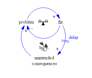 Causal loop diagram - system archetype "Fixes that fail"